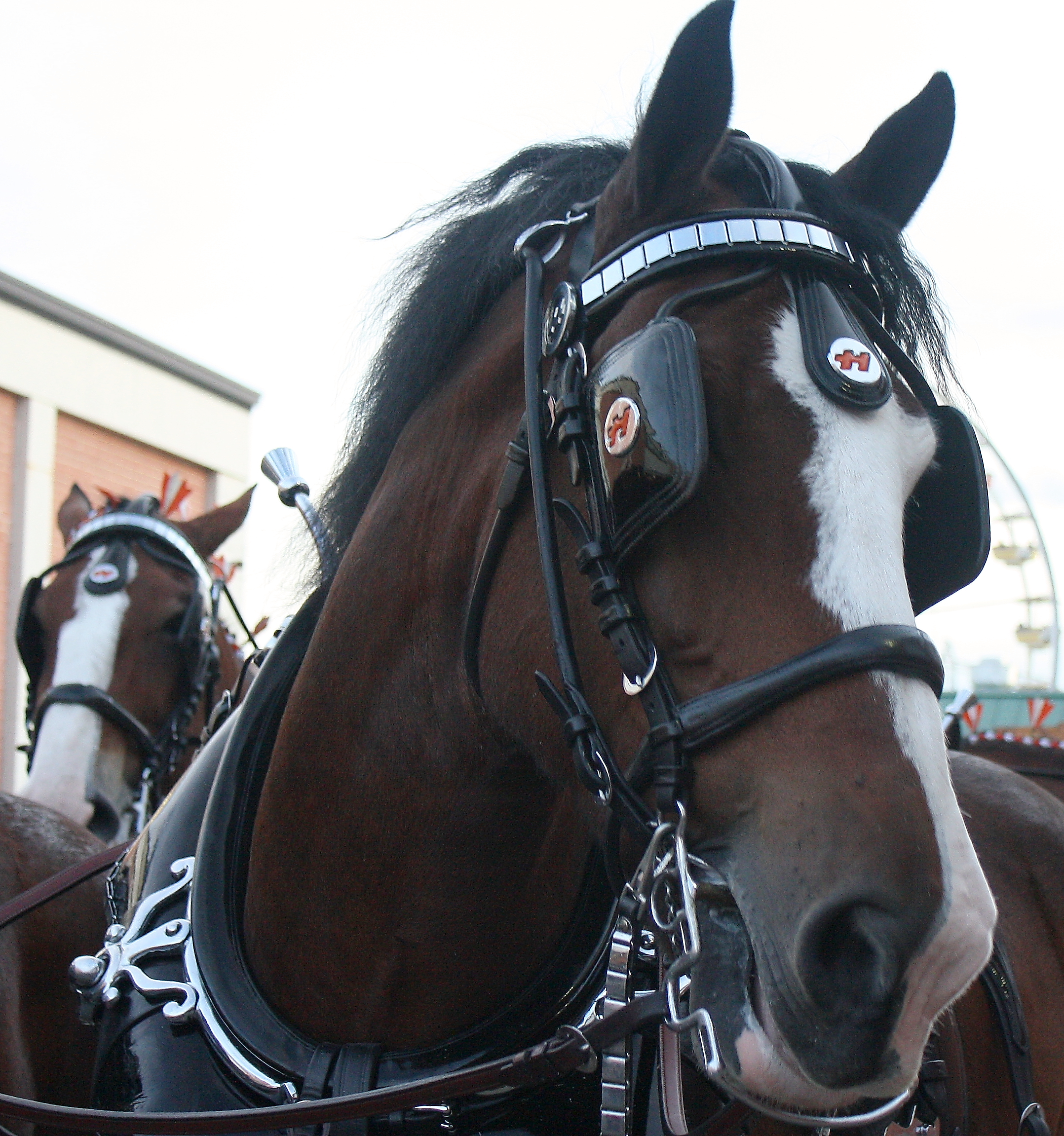 Clydesdales. The horse in the background looks jealous that hes not in front.